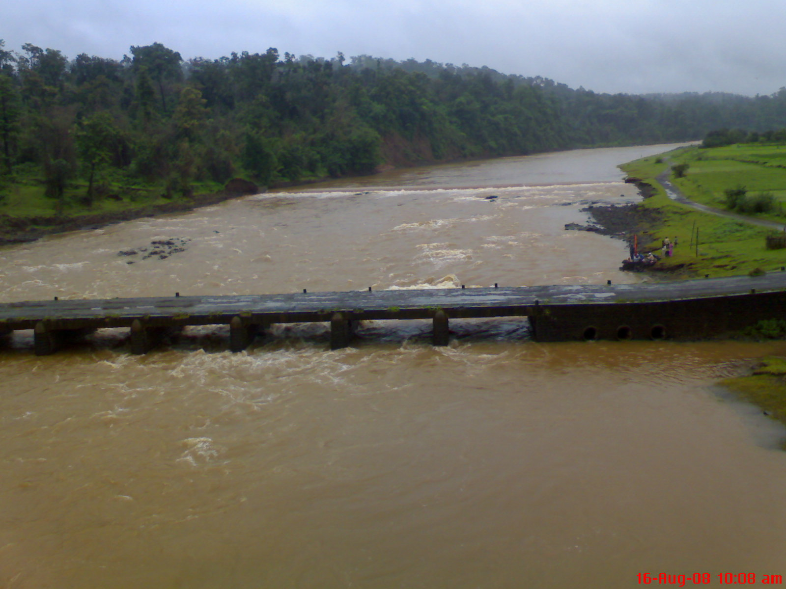 ગુજરાતી: waghai It is my own work.